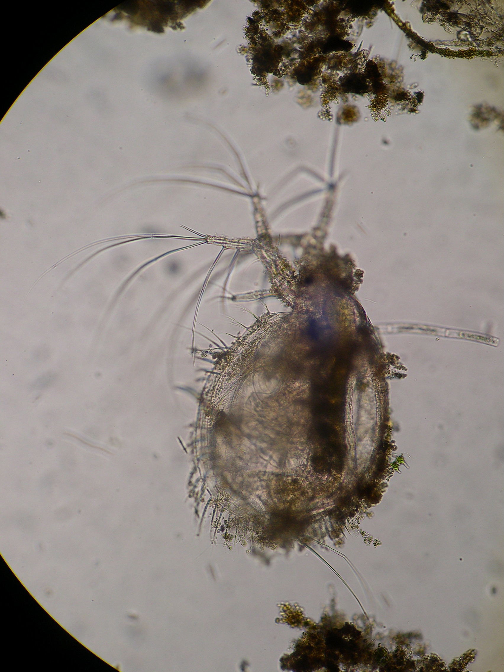 Iliocryptus sp (sordidus):Macrothricidae